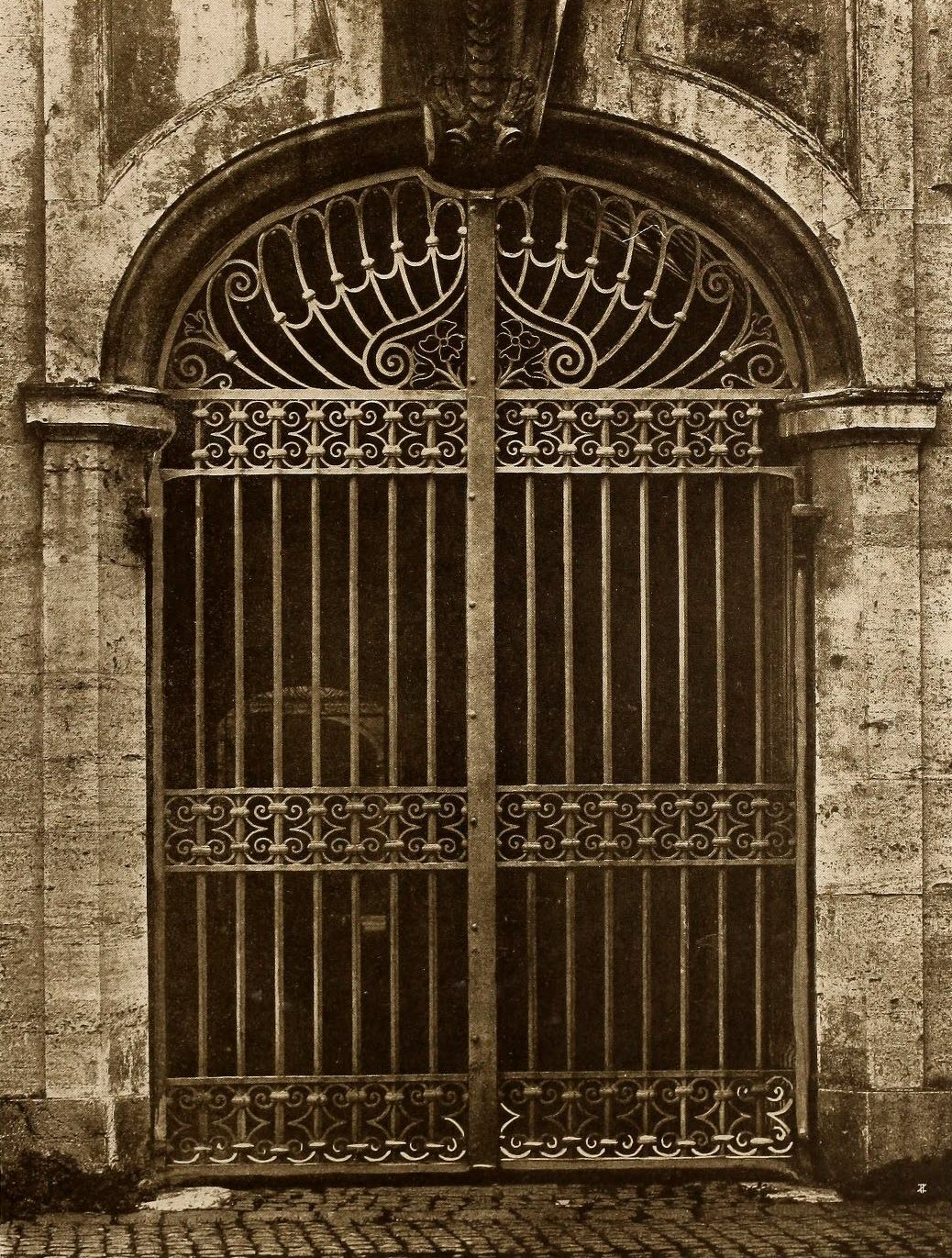 [Detail] Il ferro nell'arte italiana (1910) Cancello nella Sagrestia di S. Pietro Vaticano. In the Mary Ann Beinecke Decorative Art Collection. Sterling and Francine Clark Art Institute Library.